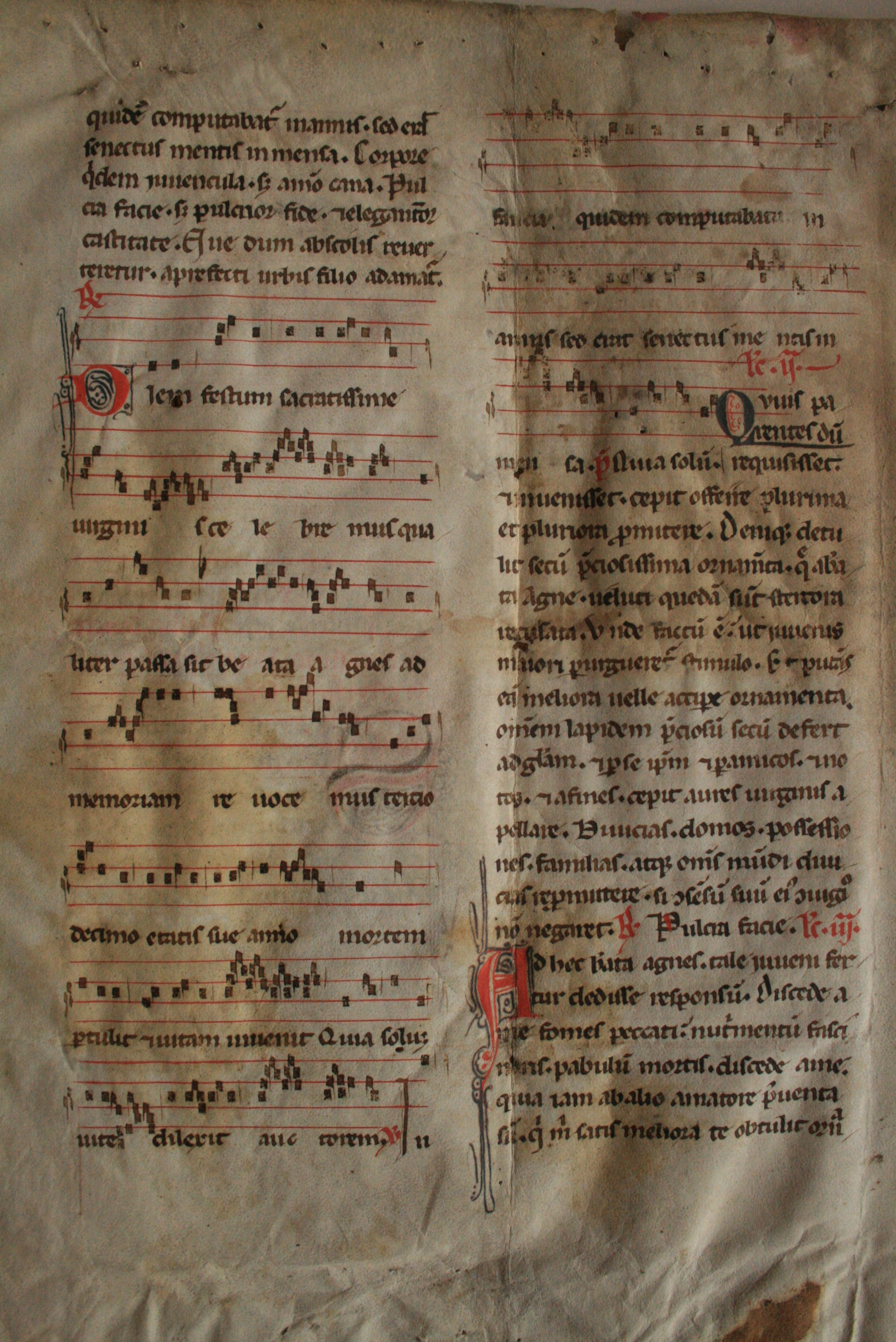 Gregorian chant in square notation on -line staff in F clef. 14th-century manuscript kept in "Arxiu COmarcal del Bages". Manresa. Catalonia. Spain